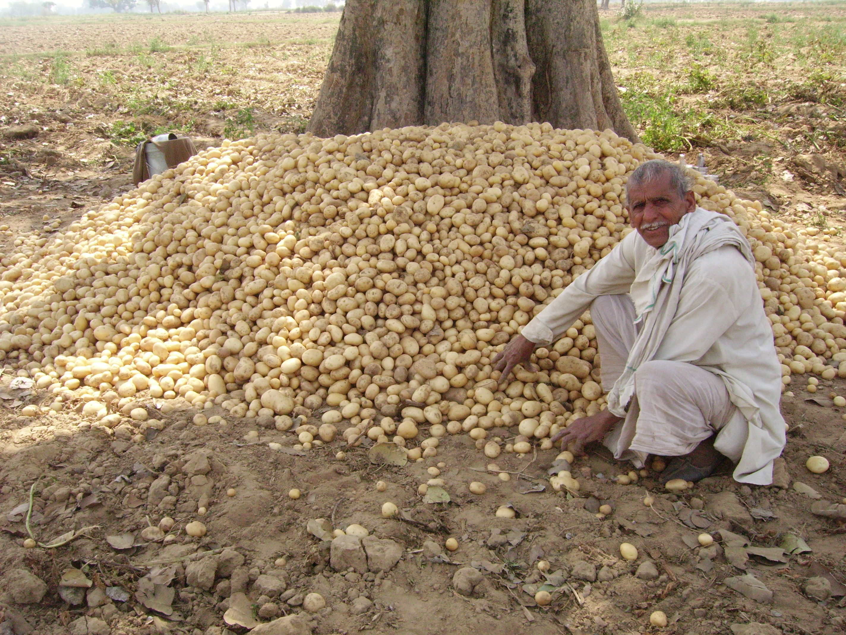 Potato farmer in India sitting beside the day's harvest